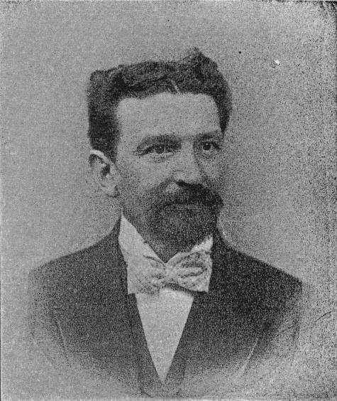 George Sampson Valentine Wills, English chemist, aged around 50, in around 1901